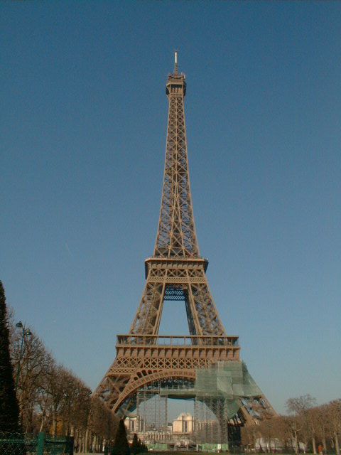 Eiffel Tower. Taken by Robert Swinney rswinney at wharton dot upenn dot edu. Permission to release under the GFDL.